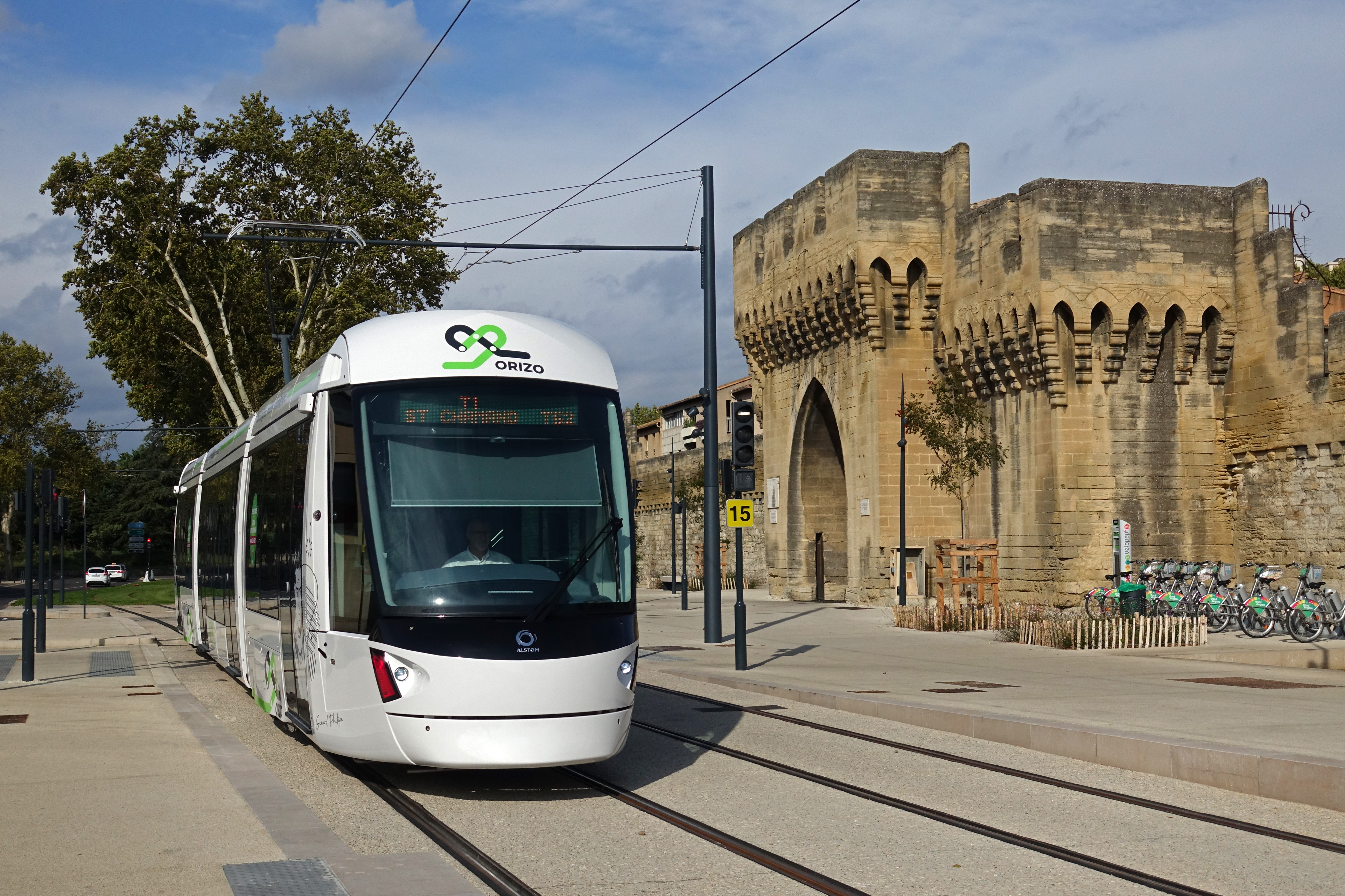 Tram unit #102 of Avignon tramway near Saint-Roch - Université des Métiers station